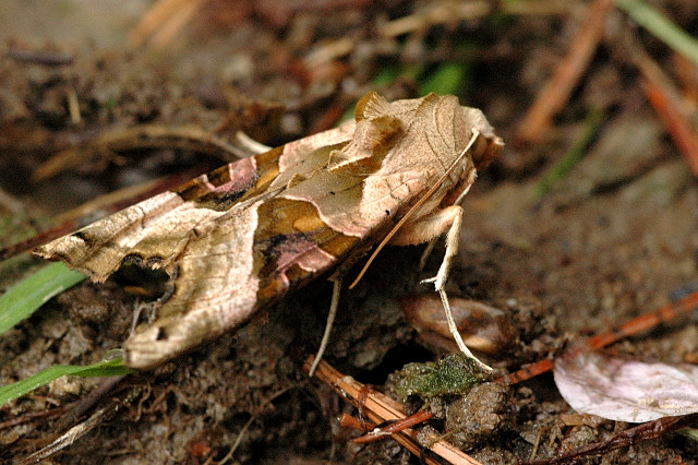 Picture taken in Commanster, Belgian High Ardennes . Species: Phlogophora meticulosa